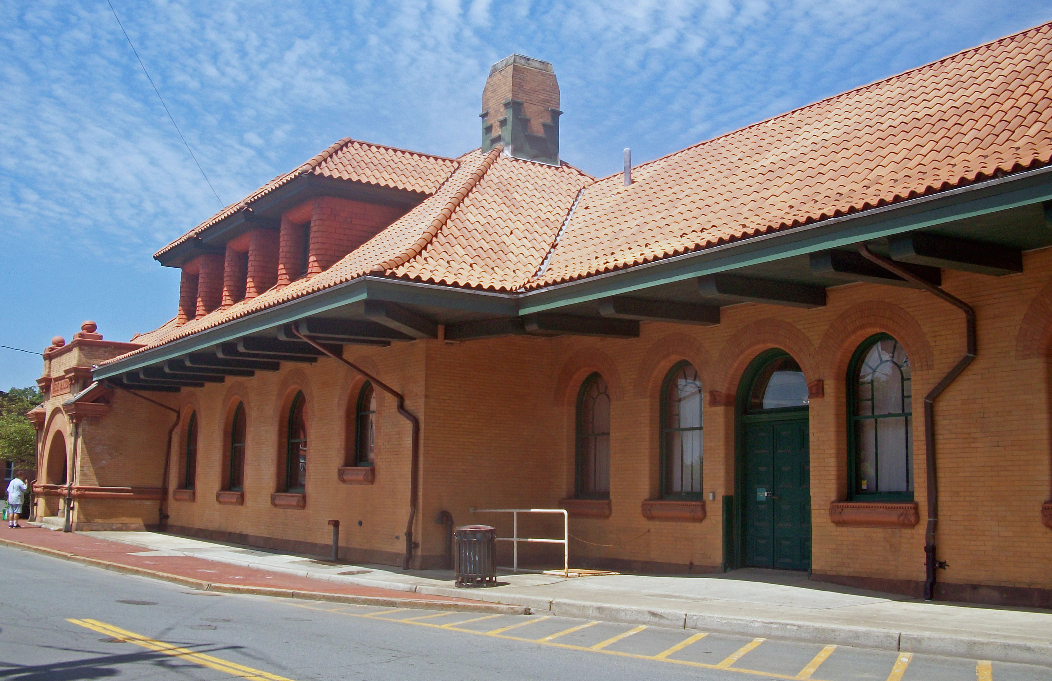 Thrall Library in Middletown, NY, USA, formerly a station along the Erie Railroad main line